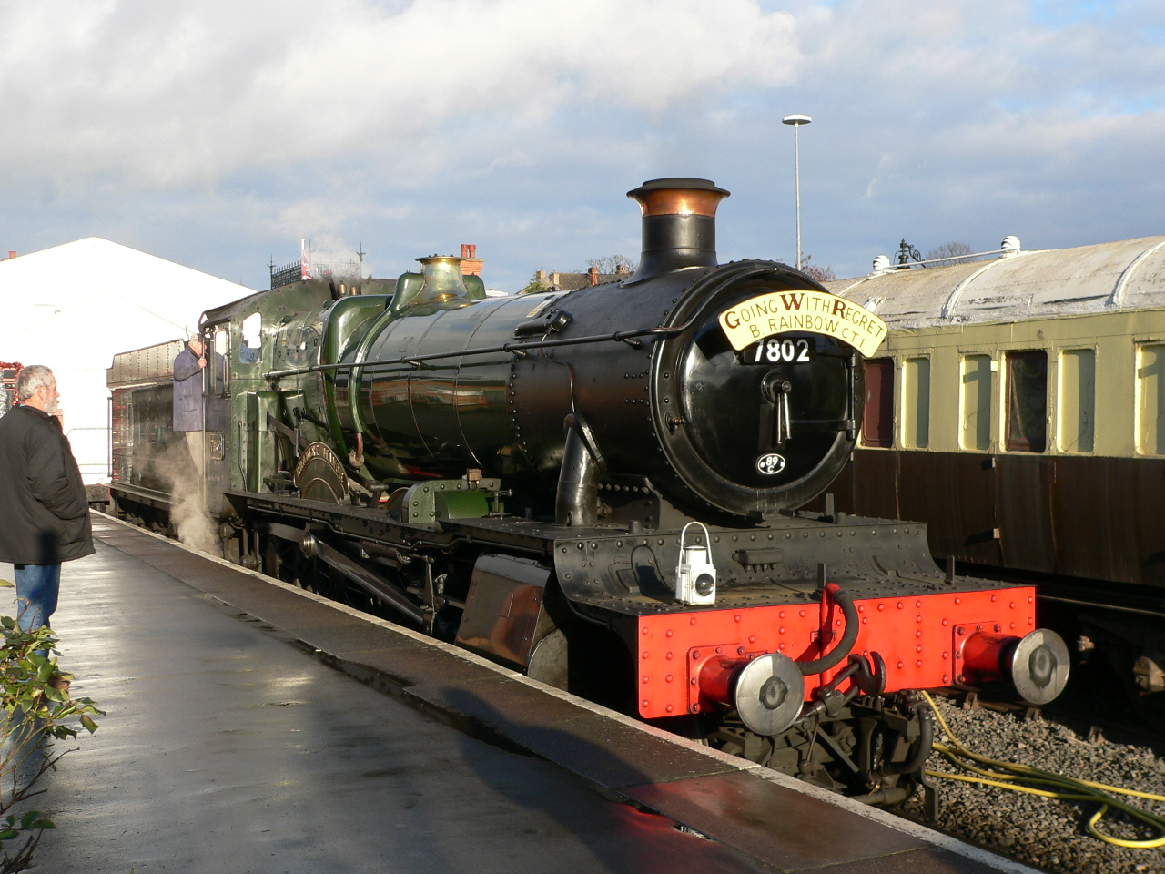 Carrying a "Going With Regret" headboard, GWR Manor Class 4-6-0 locomotive 7802 Bradley Manor at Kidderminster Town railway station after a southbound Severn Valley Railway journey from Bridgnorth. The loco paused here for a couple of mintues before running around the train for the return journey.